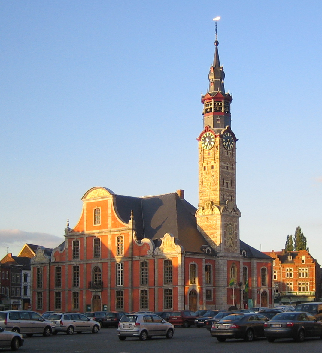 Town Hall, Sint-Truiden (Belgium).